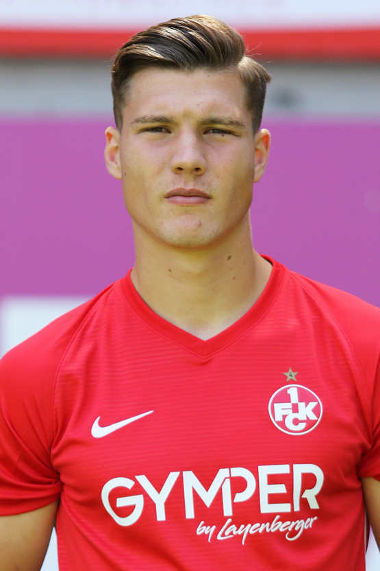 Jonas Scholz (Nr. 37)